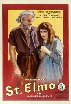 Film poster for the 1914 version of St. Elmo